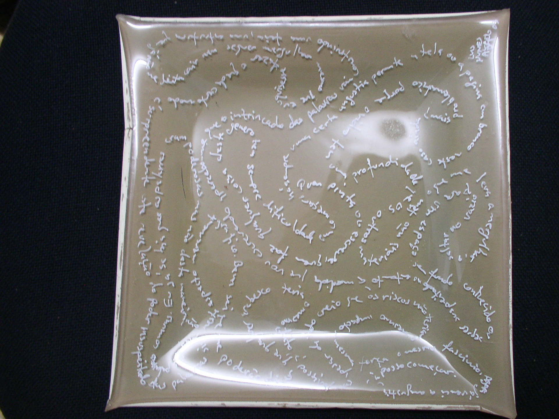 Square plate of fused glass